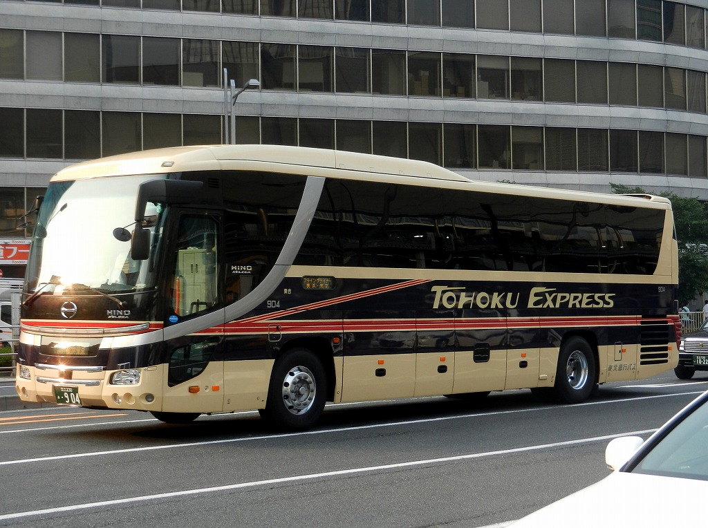 Tohoku Express bus Hino S'elega for highwaybus "Flying-liner"(Tokyo,Yokohama-Kyoto,Osaka,Fujiidera)